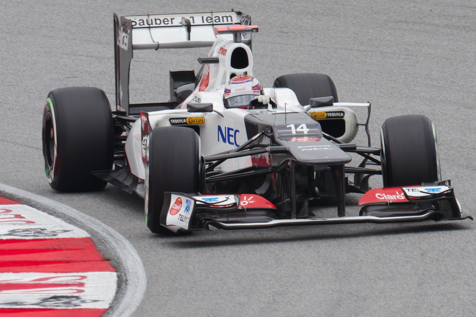 Formula One 2012 Rd.2 Malaysian GP: Kamui Kobayashi (Sauber) during the third practice session on Saturday.